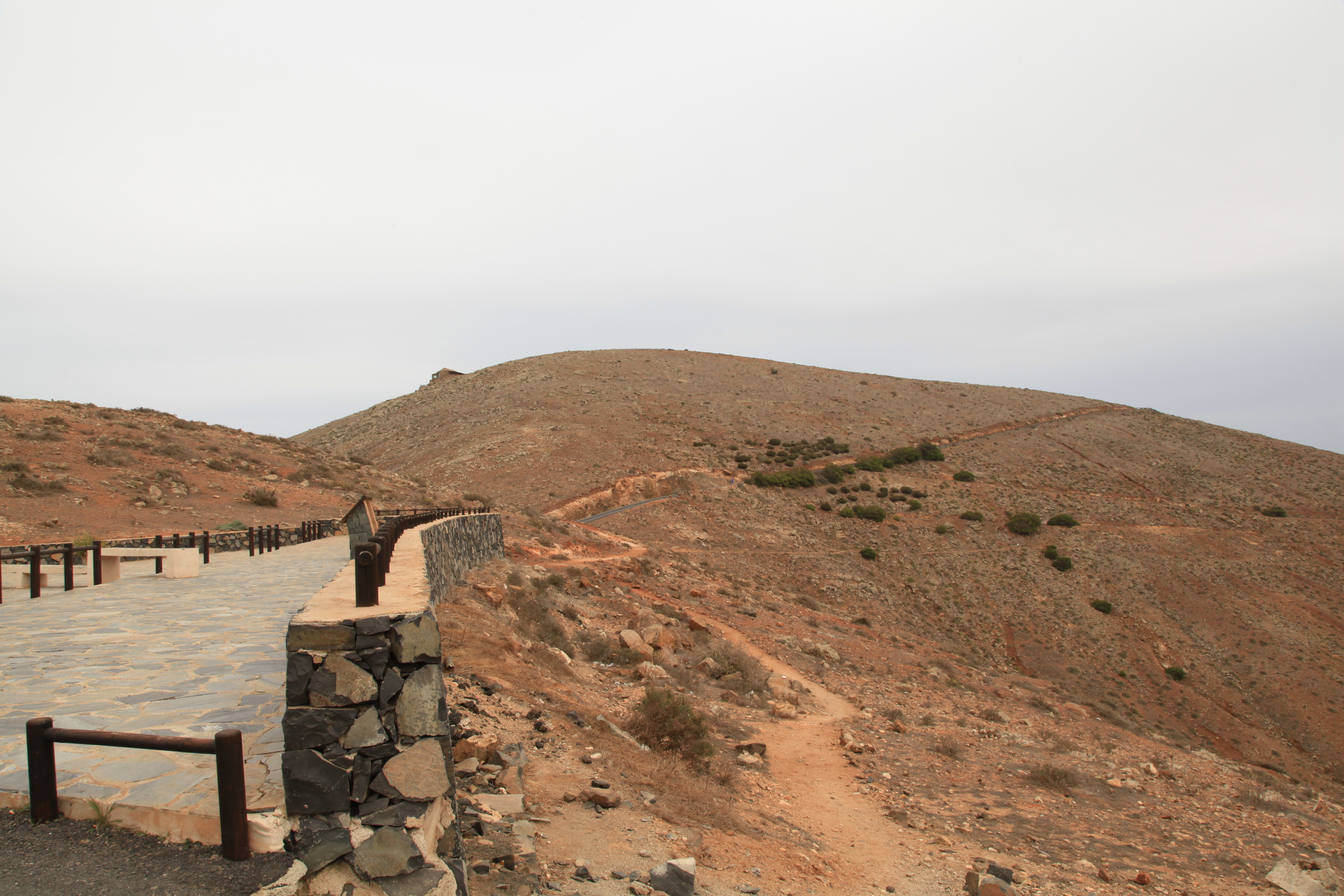 Morro Velosa seen from Mirador Corrales de Guize, FV-30 in Betancuria, Fuerteventura, Canary Islands